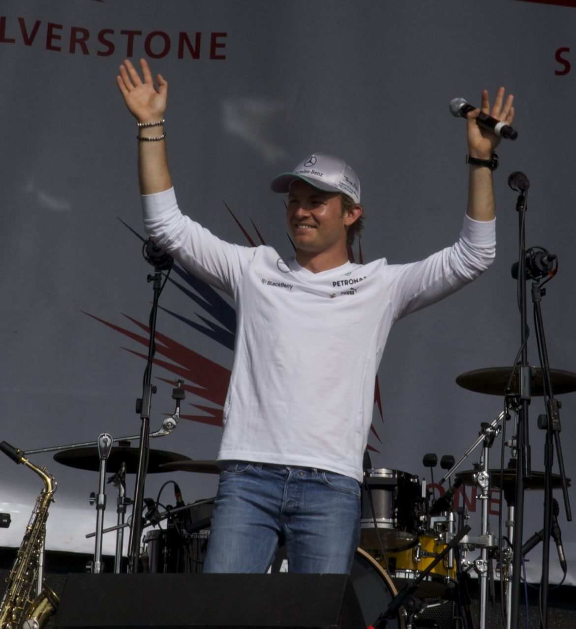 Nico Rosberg (Mercedes) at the 2013 British Grand Prix.